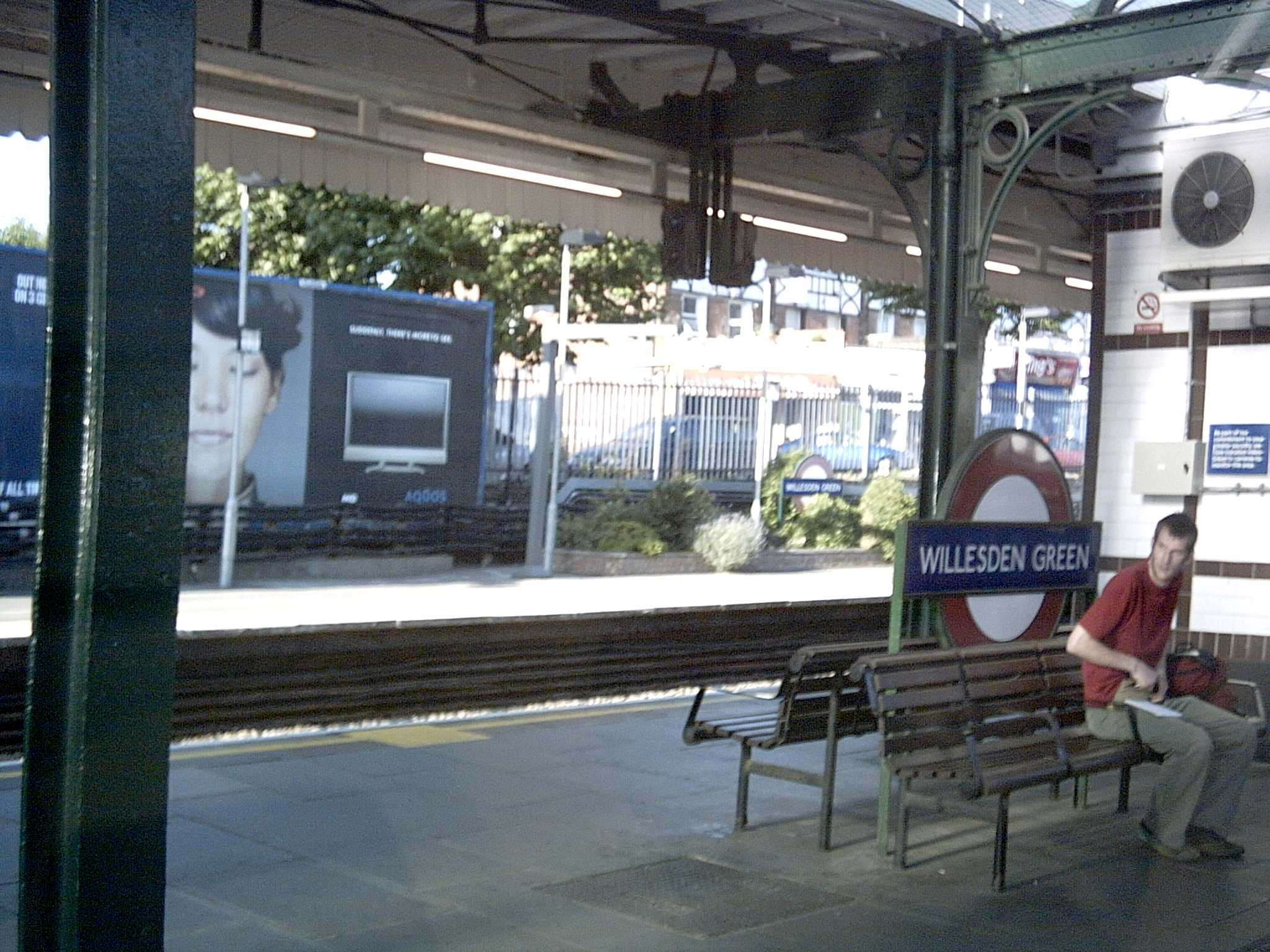 Station platform from a northbound Jubilee Line train